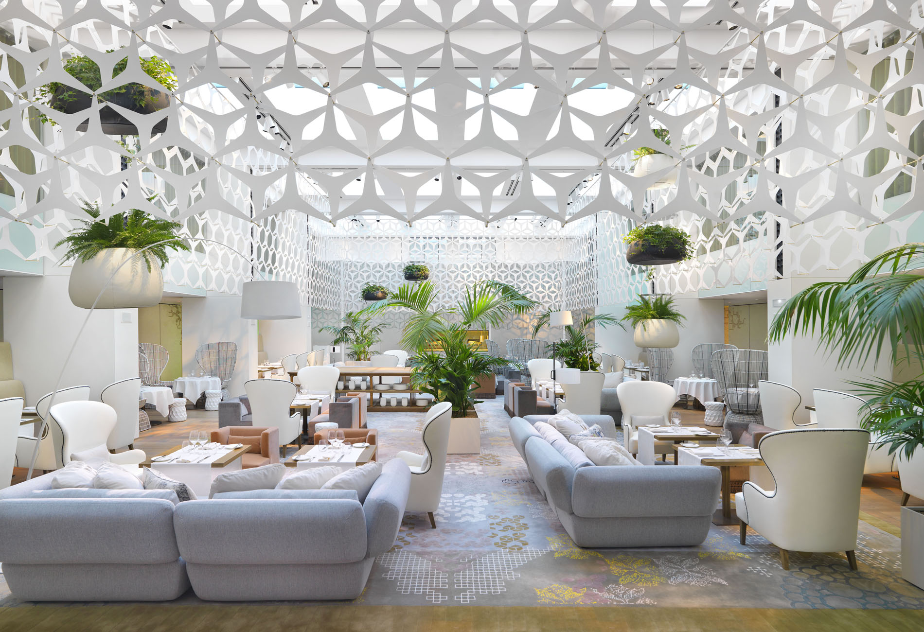 Restaurant Blanc at Mandarin Oriental, Barcelona